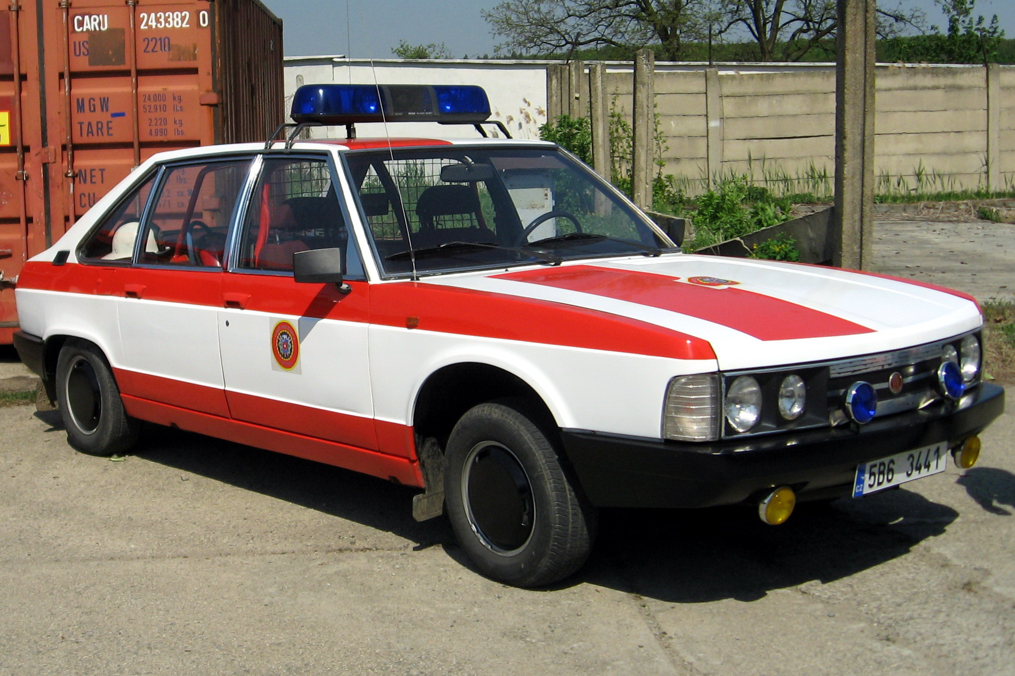 Open day at Řečkovice, Czech republic, exhibition of fire fighting vehicles and equipment. The vehicle in foreground is Tatra 613